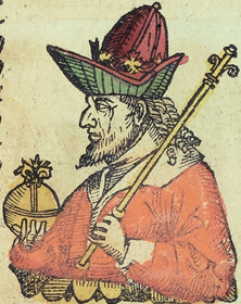 Illustration from the Nuremberg Chronicle (Latin copy in Sao Paulo)